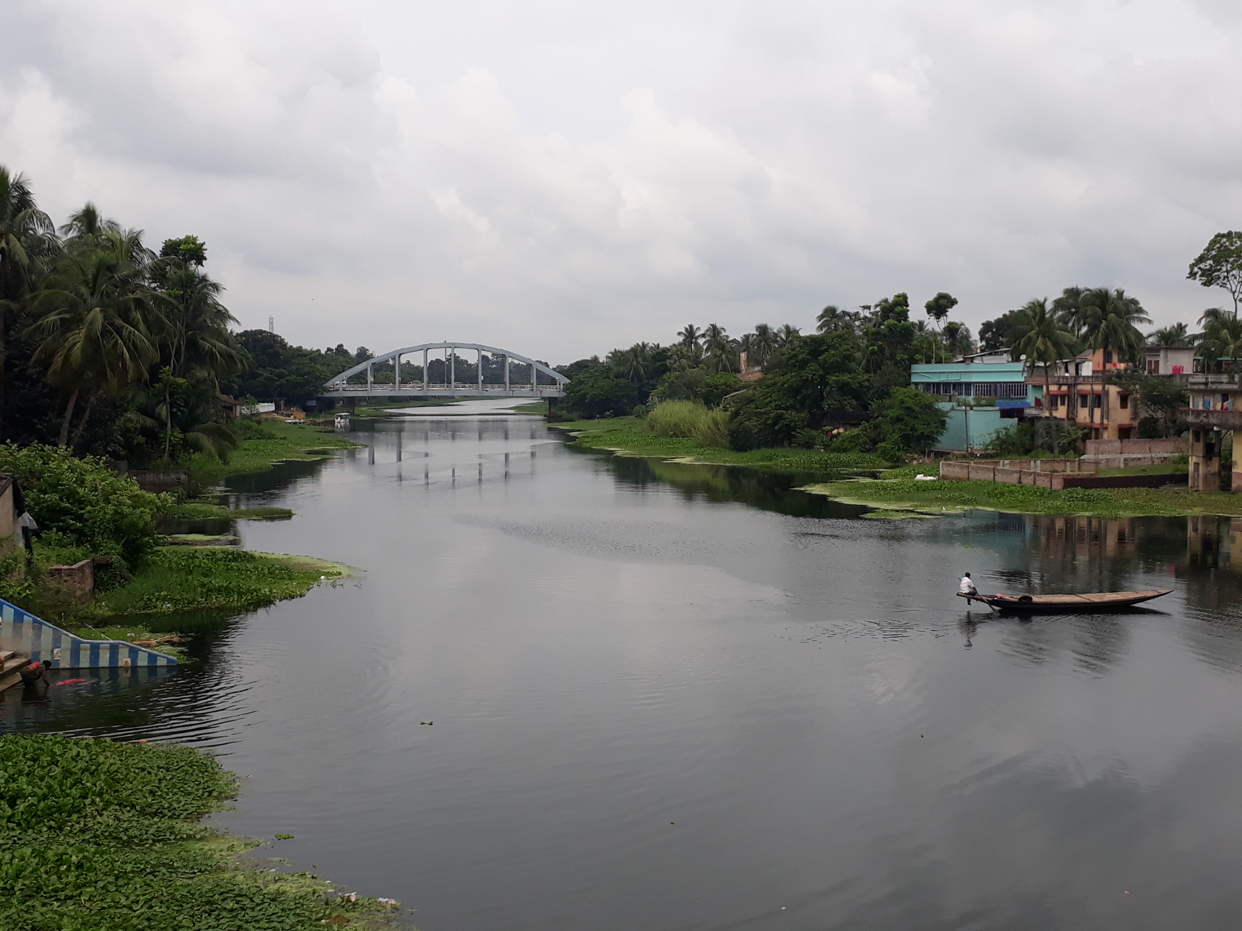 Icchamati River at Bangaon, North 24 Parganas, West Bengal